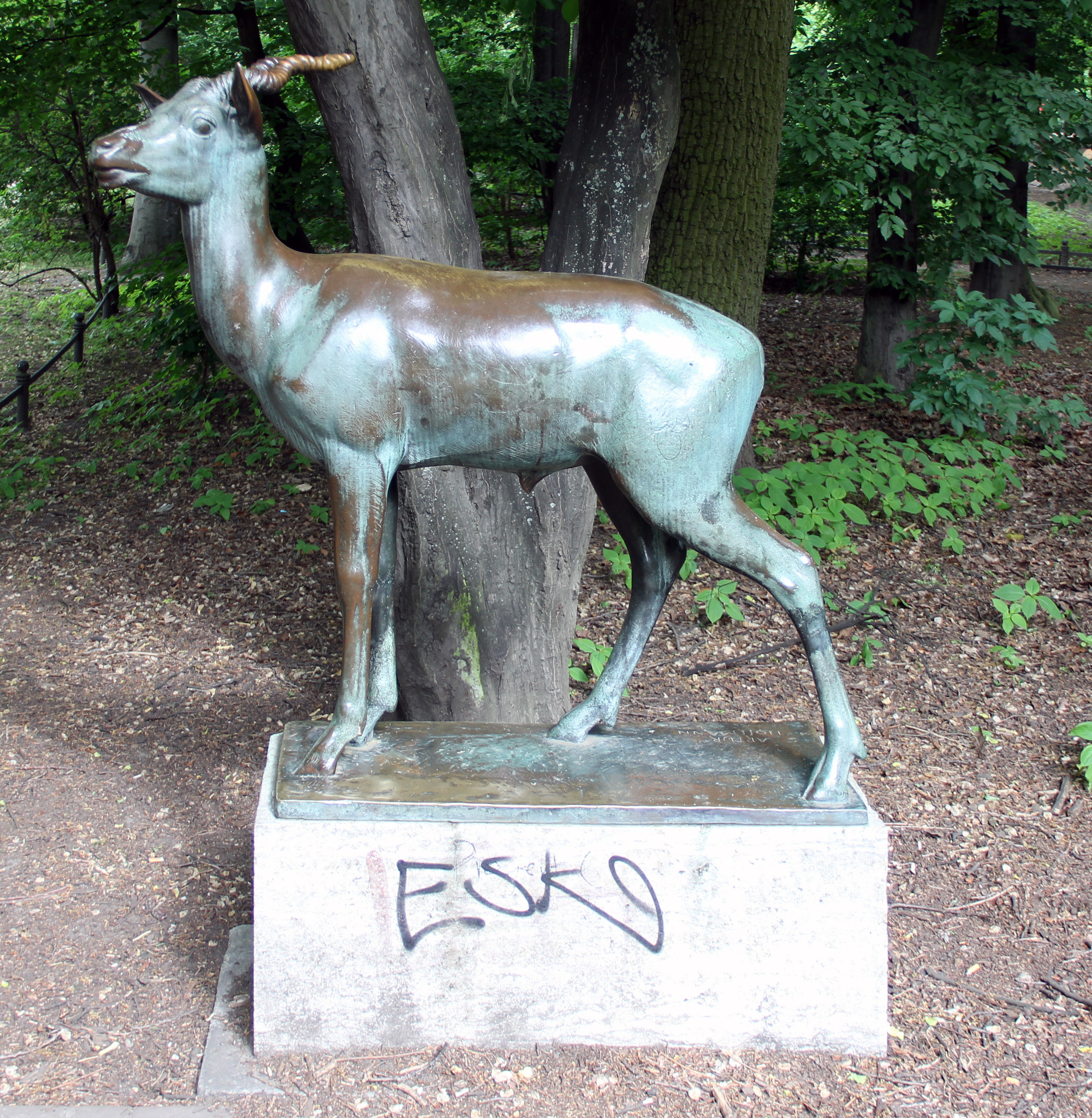 Sculpture, "Antilope" by Arthur Hoffmann, 1926, Preußenpark, Berlin-Wilmersdorf, Germany